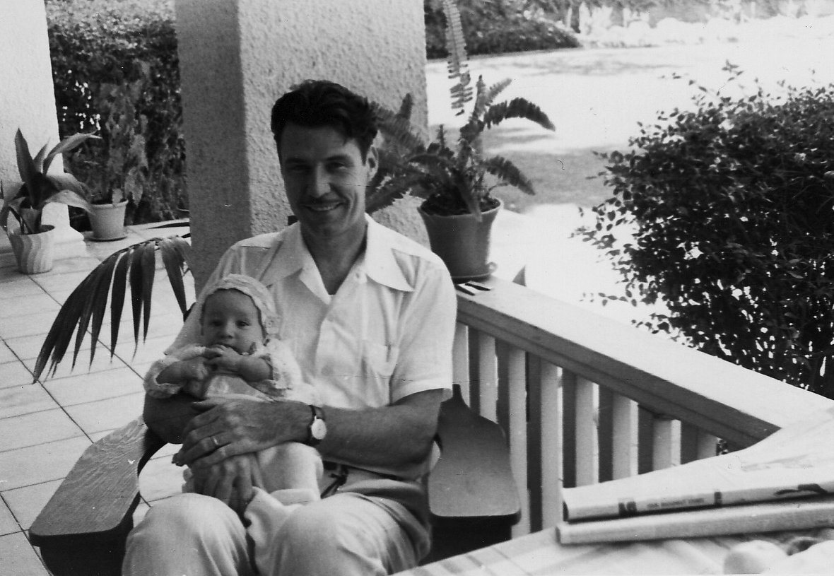 David P. Bushnell in late 1949 in Pasadena, soon after the beginning of Bushnell Optical, and infant.